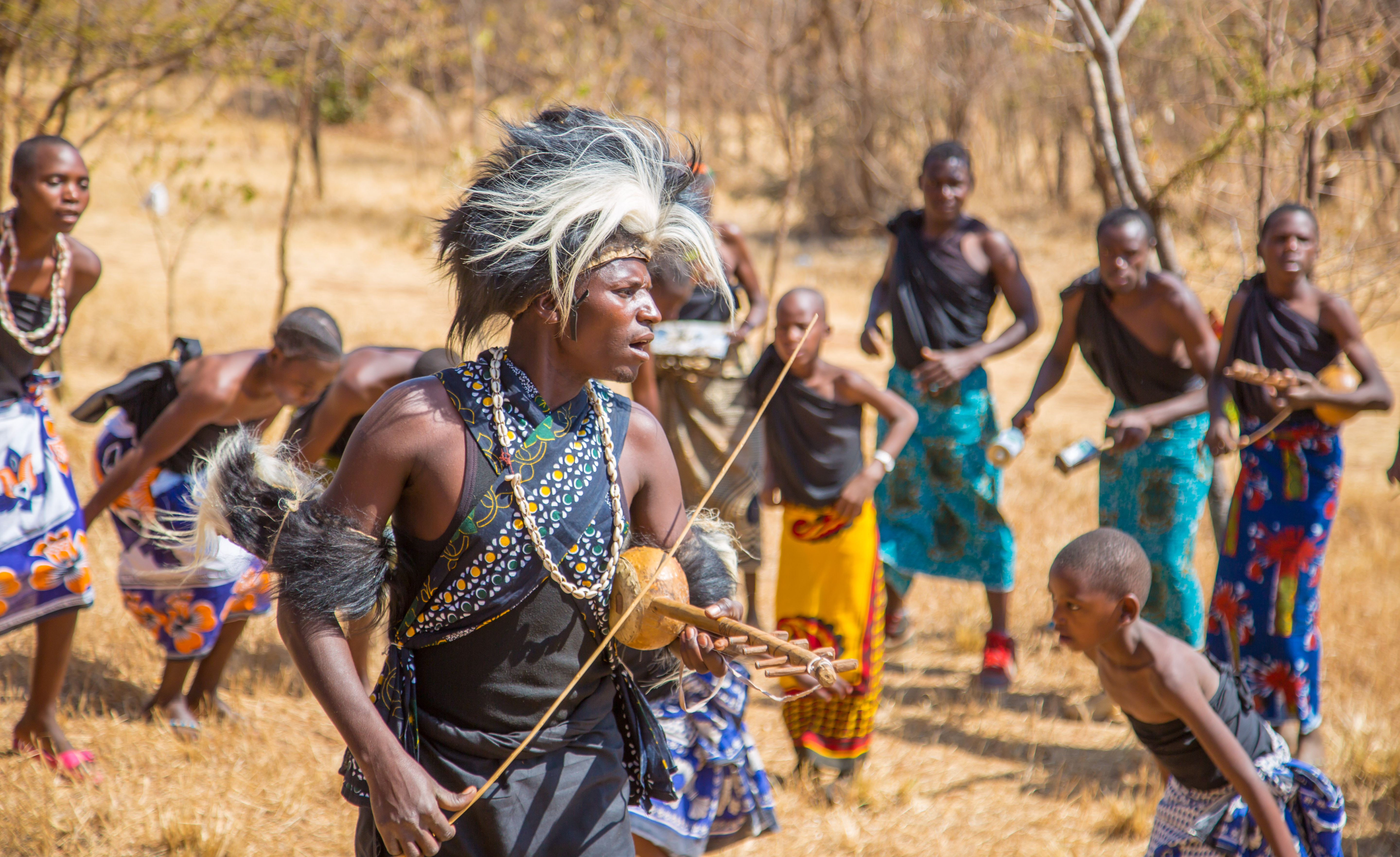 This is an image from Tanzania